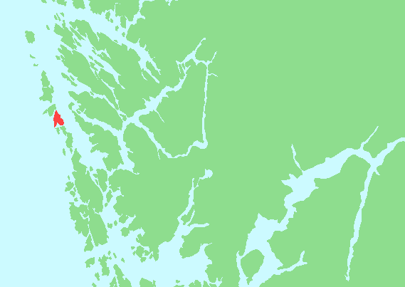 Locator map of Blomøy, Hordaland, Norway